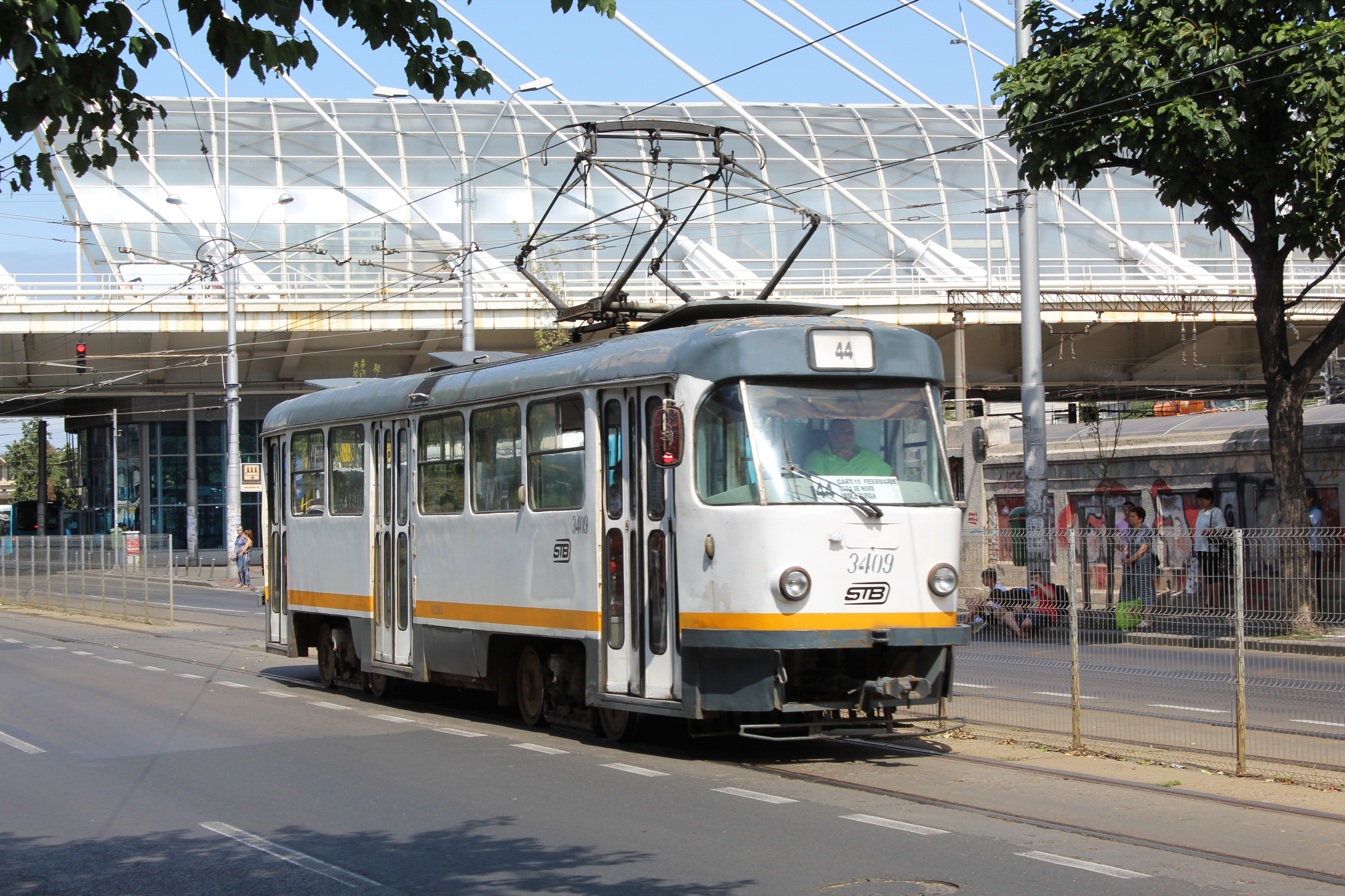 Tram number 3409 (type Tatra T4R) of the STB near Basarab Railway Station, heading towards Vasile Pârvan